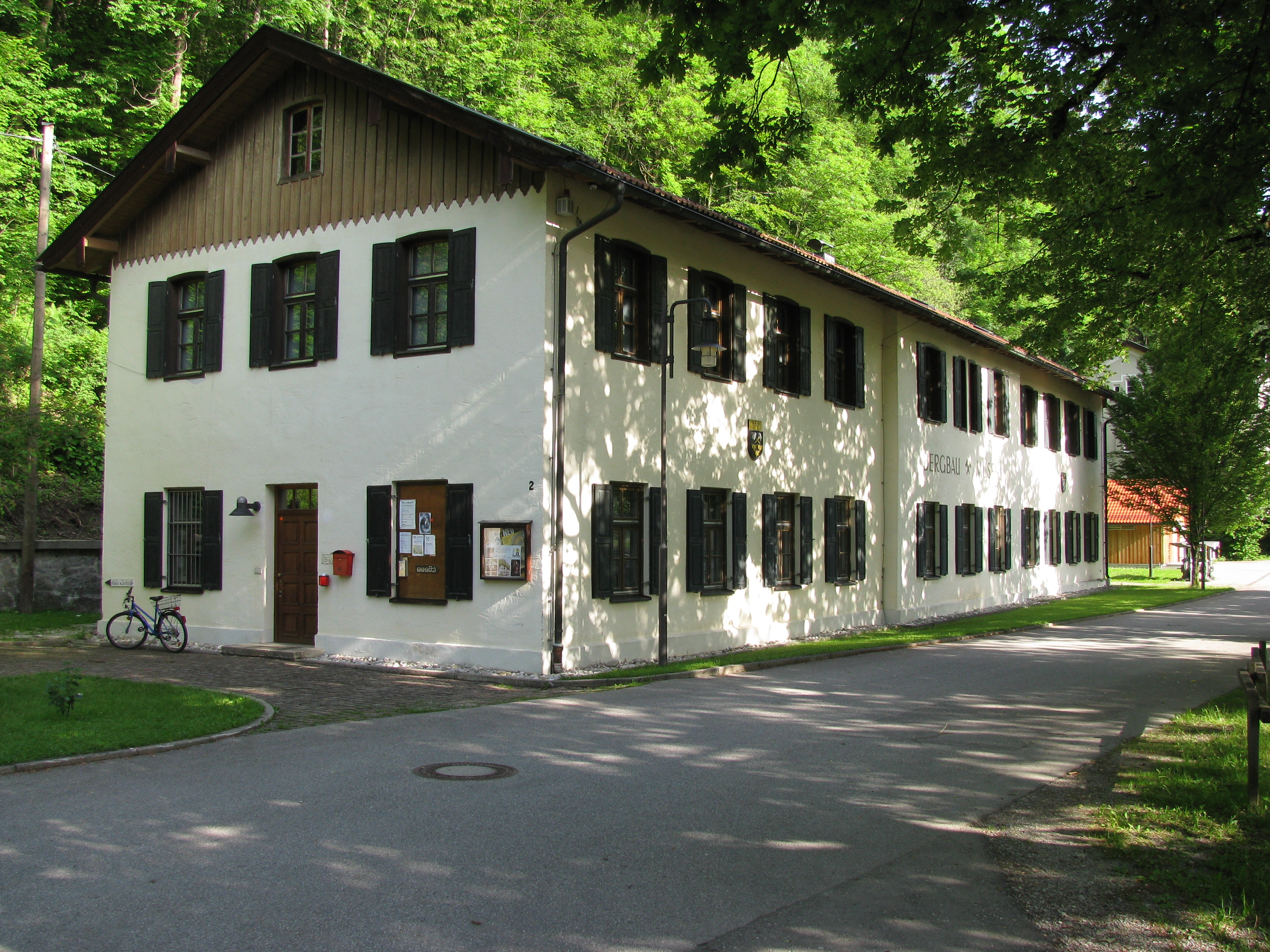 mining museum bilding in Peissenberg